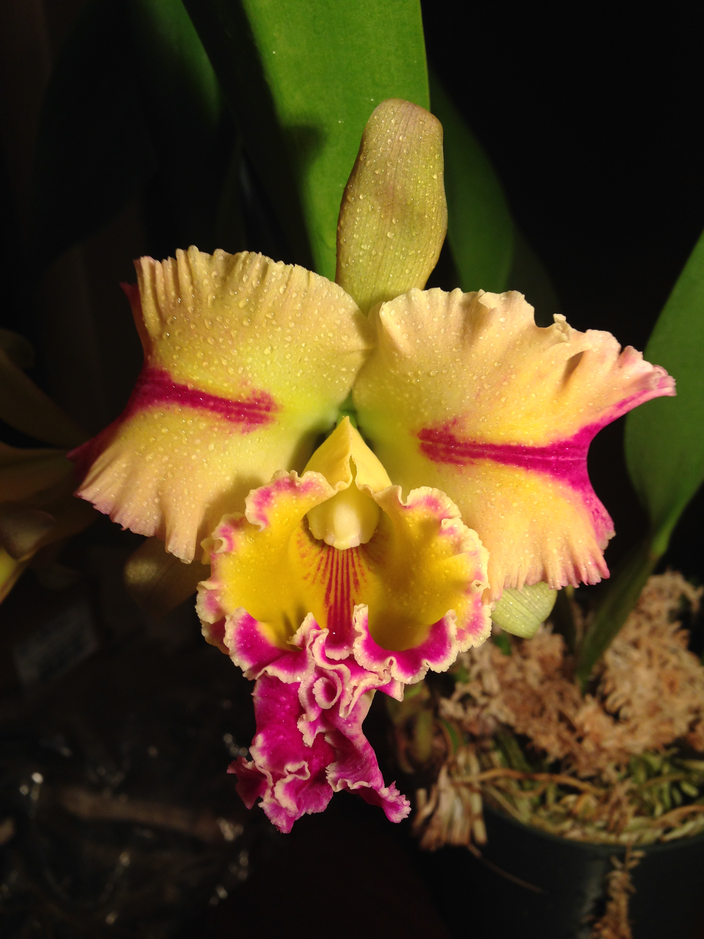 A flower of a Blc. Paradise Jewel 'Flame' hybrid orchid plant.